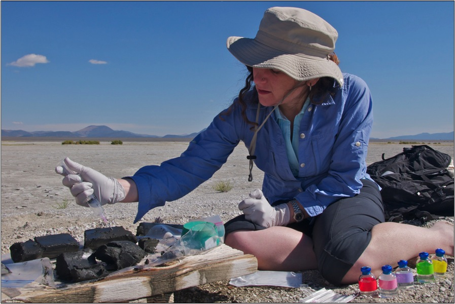 NASA astrobiology fellow Felisa Wolfe-Simon processing mud from Mono Lake in California to inoculate media to grow microbes on arsenic — GFAJ-1.